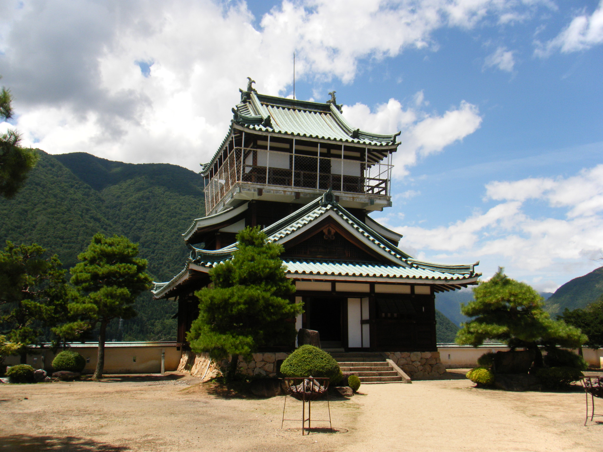 Kamioka Castle in Hida, Gifu Prefectre, Japan.